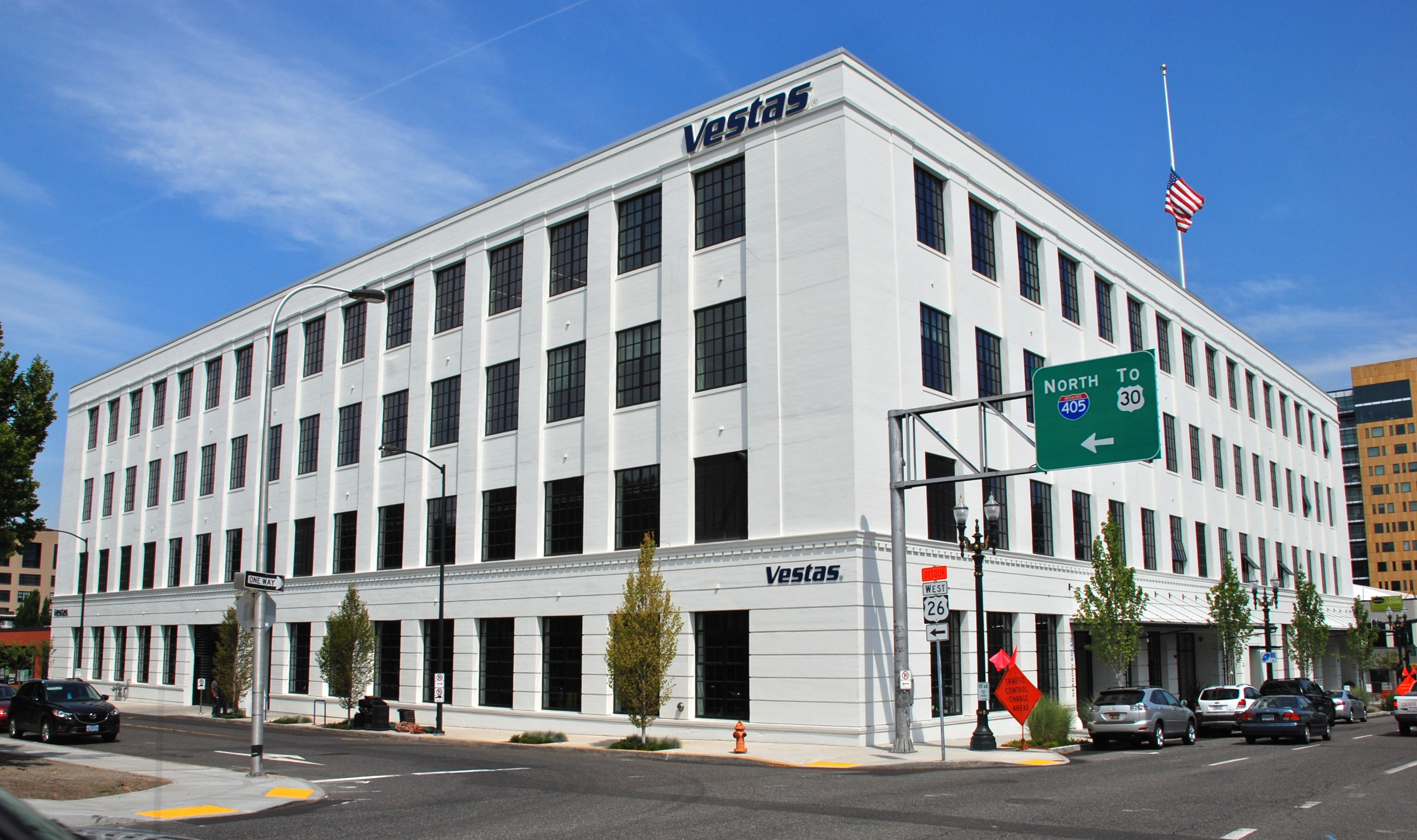 The U.S. headquarters of Vestas, in Portland, Oregon, moved in 2012 to the former Meier & Frank Delivery Depot (at 1417 NW Everett St.), a 1927 building that is listed on the U.S. National Register of Historic Places. This photo is looking northeast on Everett Street, across the intersection with 15th Avenue, and shows the building's west and south sides. (The flag on the roof was flying at half mast because of a recent mass-shooting in Wisconsin.)